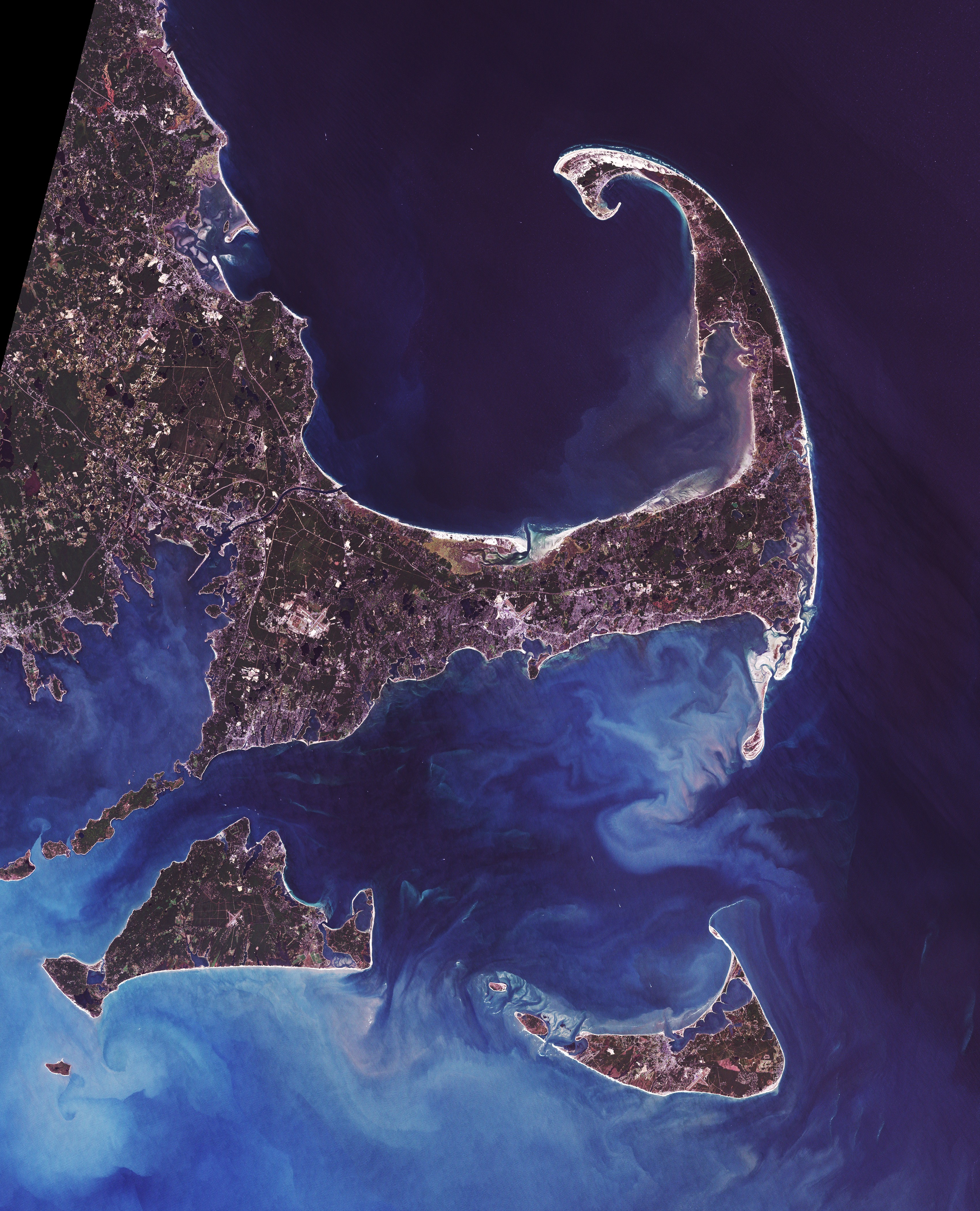 Cape Cod (or simply The Cape) is an arm-shaped peninsula forming the Easternmost portion of the Commonwealth of Massachusetts, USA, in the Northeastern United States. It is coextensive with Barnstable County. Although Cape Cod was originally connected to the mainland, the Cape Cod Canal, completed in 1914, effectively transformed Cape Cod into a large island.